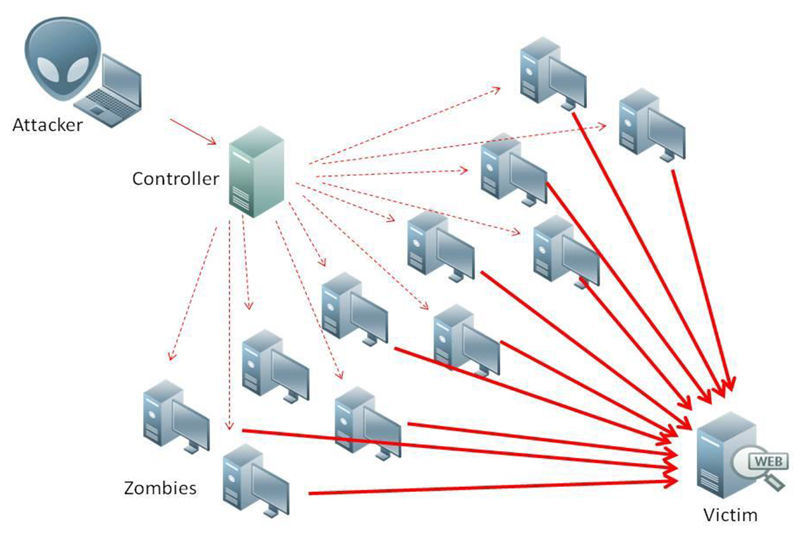 Монгол: ddos attack man in the middle